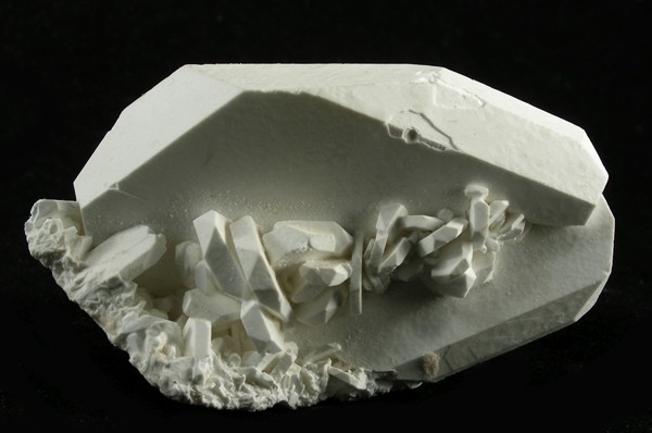 Tincalconite, Borax Locality: US Borax Open Pit — U.S. Borax Mine (Pacific West Coast Borax; Pacific Coast Borax Co.; Boron Mine; U.S. Borax and Chemical Corp.; Kramer Mine; Baker Mine), Kramer Borate deposit, Boron, Kramer District, eastern Kern County—Mojave Desert, Southern California, U.S. Locality at . Size: 8.0 x 4.5 x 4.5 cm. A striking specimen of brilliant white pseudomorphs of tincalconite after sharp, tabular borax crystals from the Boron Pit of California. The large, doubly terminated pseudomorph is superbly surrounded by smaller crystals. An amazing specimen for such a soft mineral. Essentially pristine. Ex. Norm Dawson Collection.